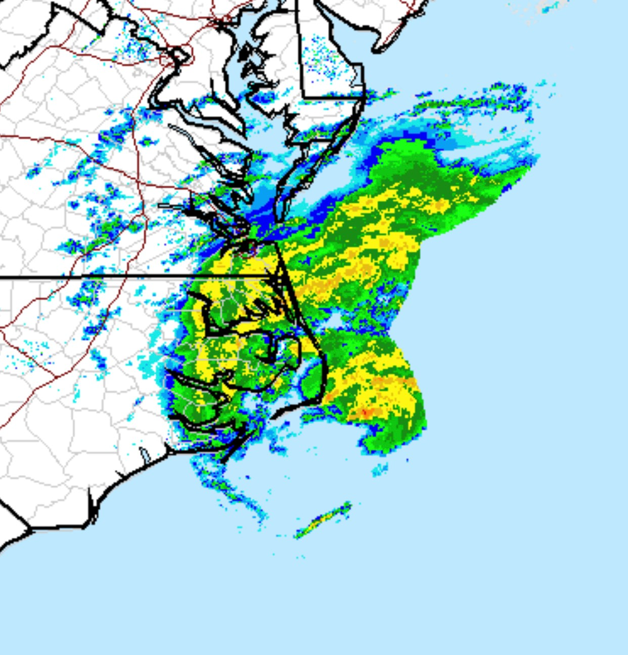 Tropical Storm Arthur at its closest approach to North Carolina on May 18, 2020.